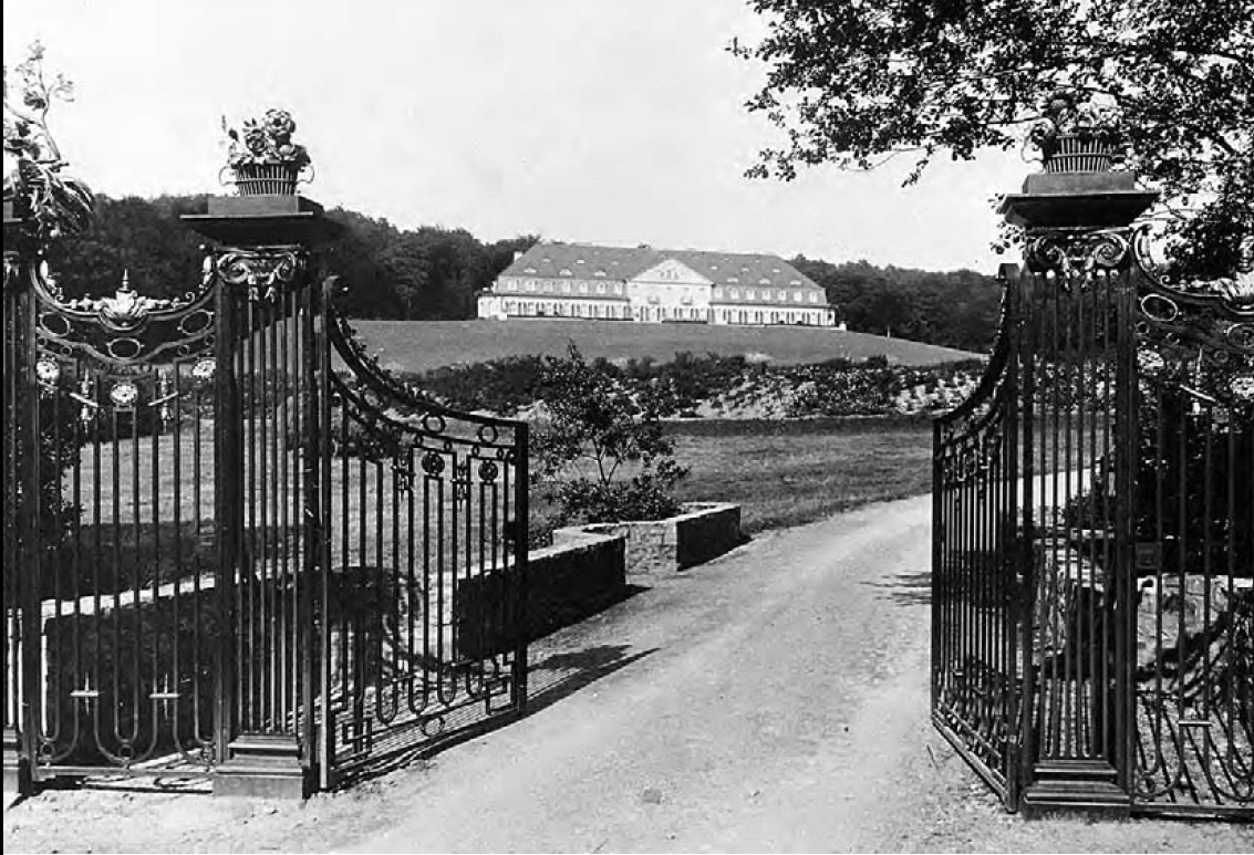 Schloss Haniel ca. 1930